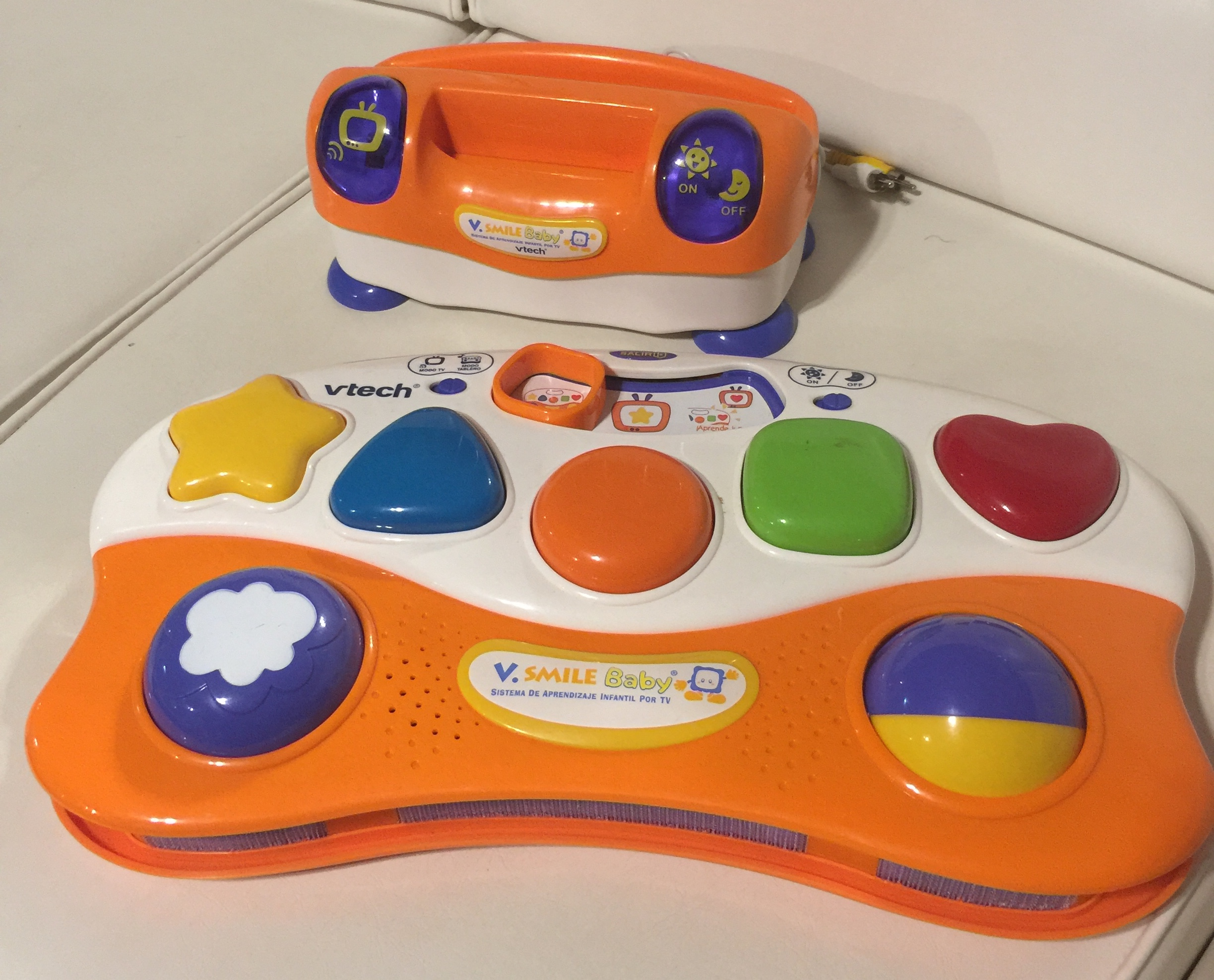 The V.Smile Baby console by VTech.